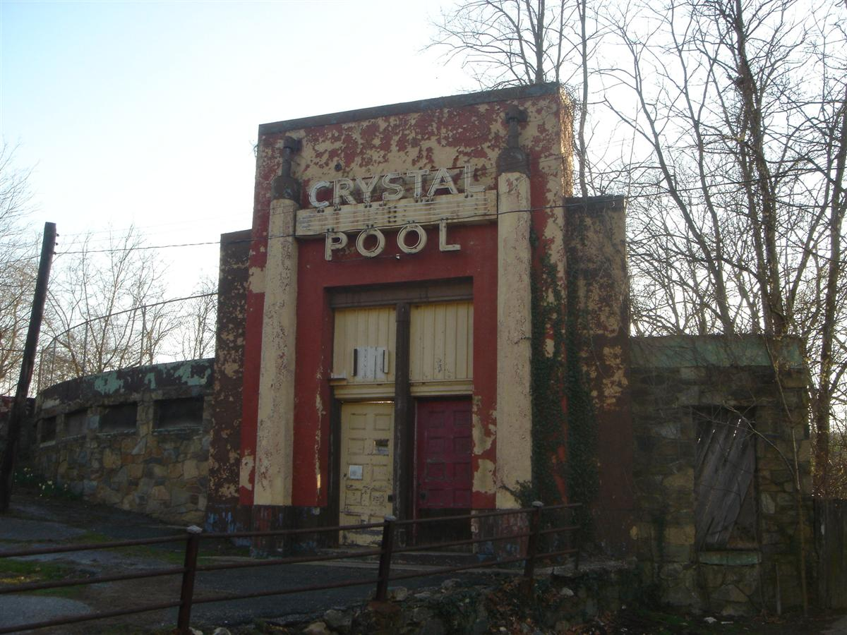 The former Crystal Pool located at Glen Echo Park, Maryland